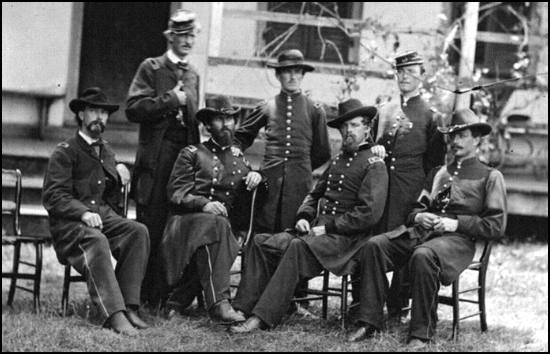 photo of Charles Carroll Walcutt